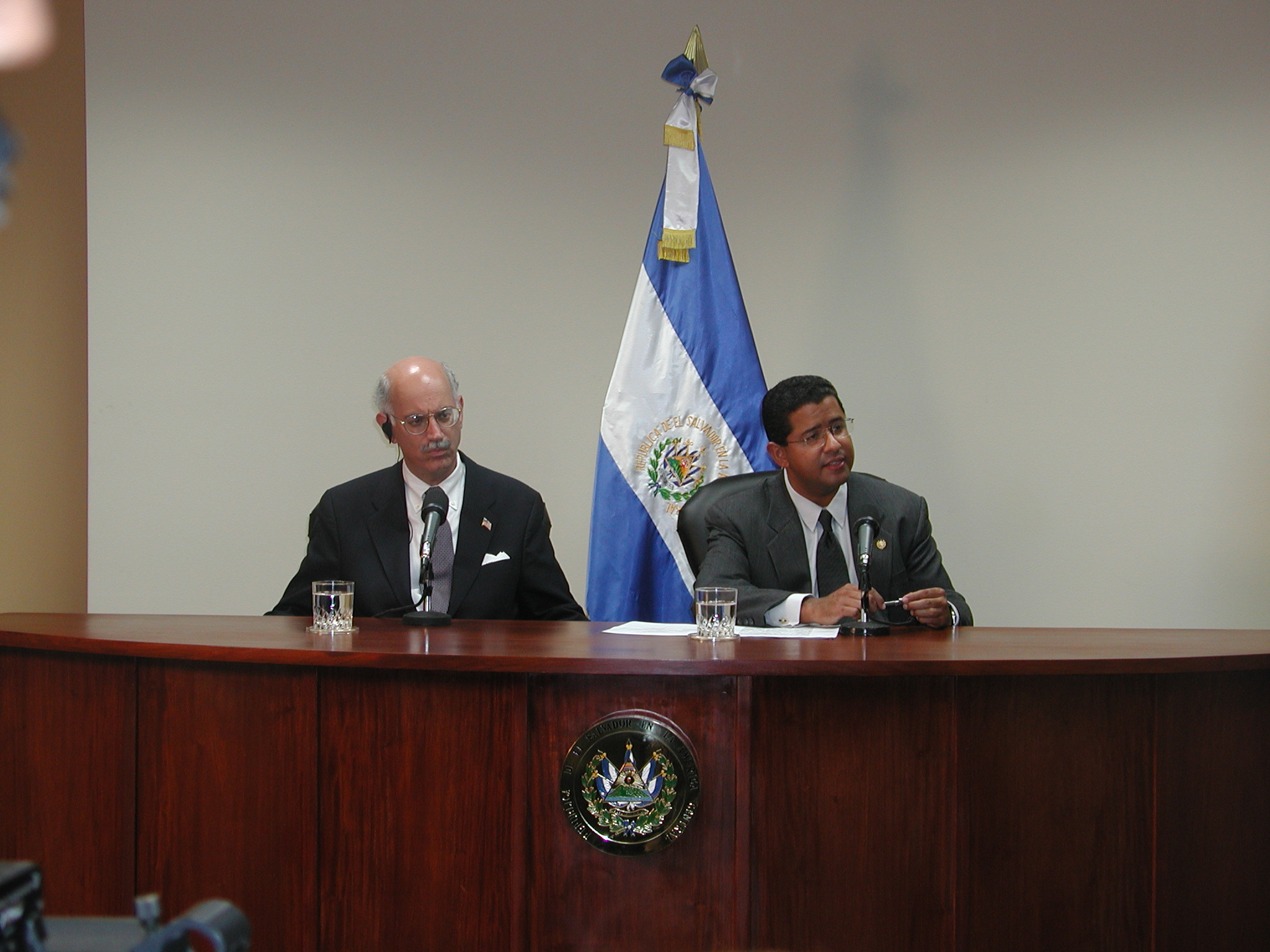 President Francisco Flores of El Salvador